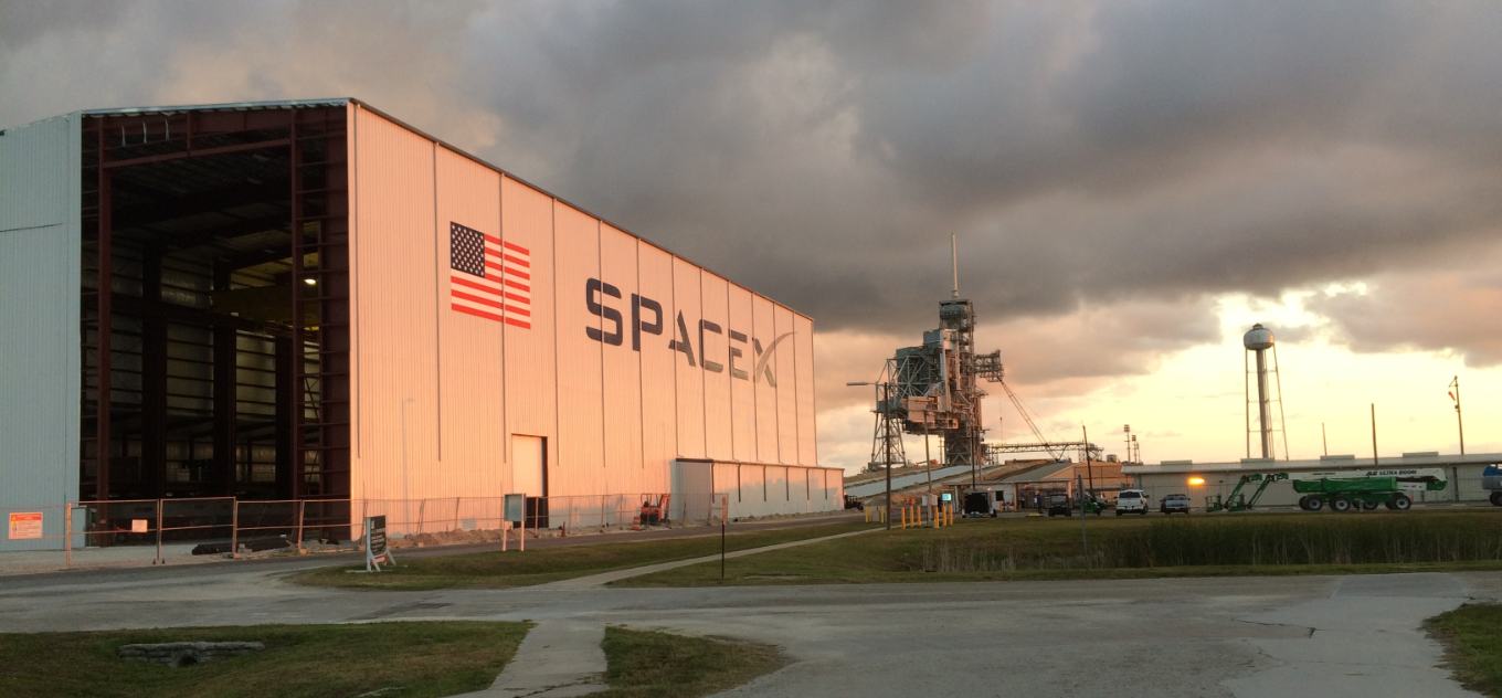 SpaceX's biggest hangar yet in work at Kennedy Space Center Space Launch Complex 39A, capable of holding up to 5 rockets at once.